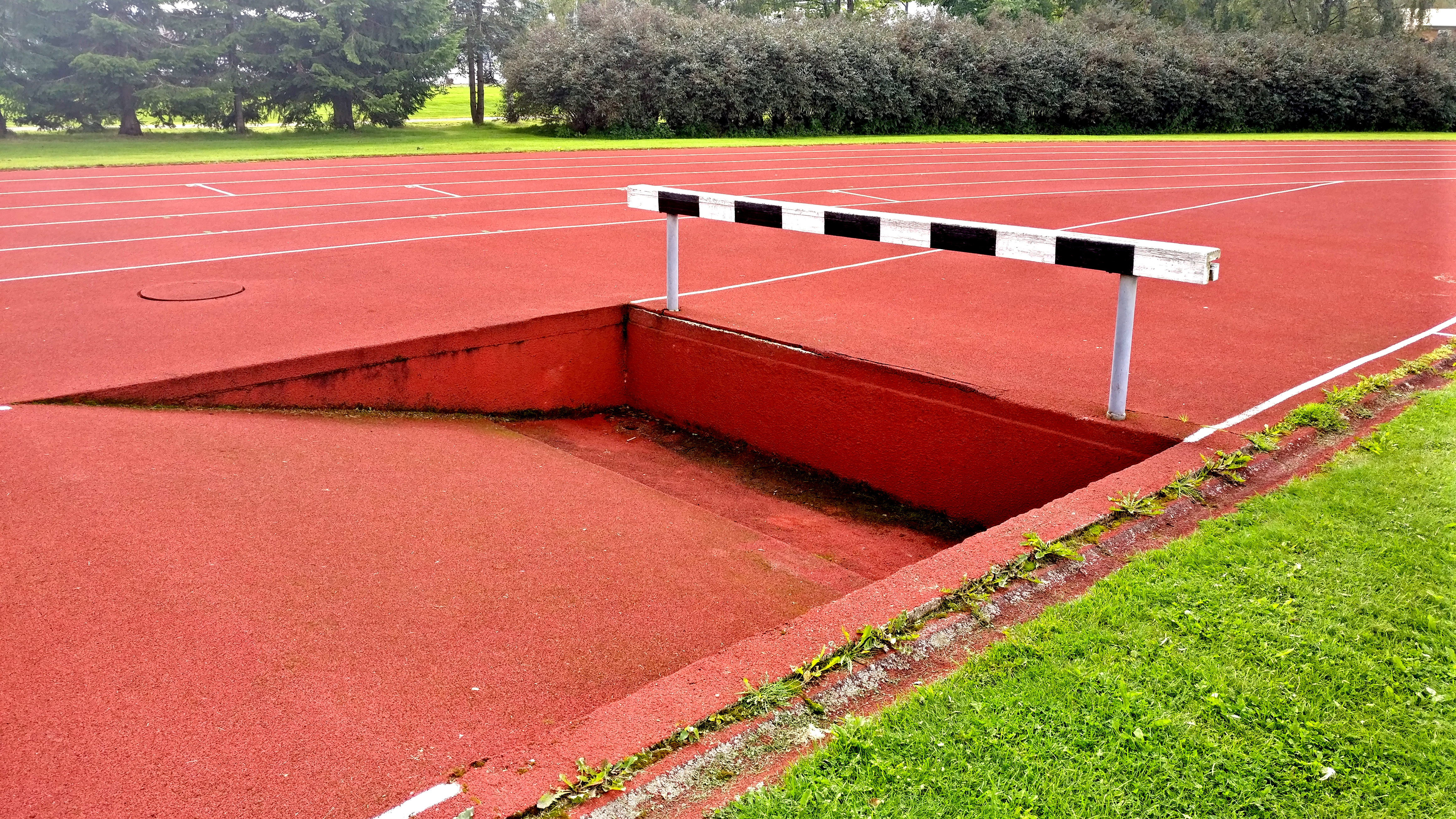 Water jump barrier, steeplechase.